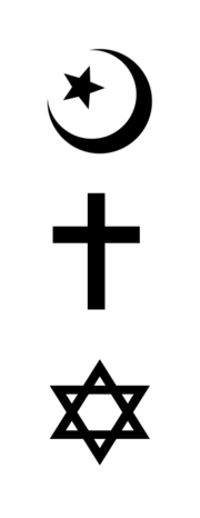 1.Three main Abrahamic Religions